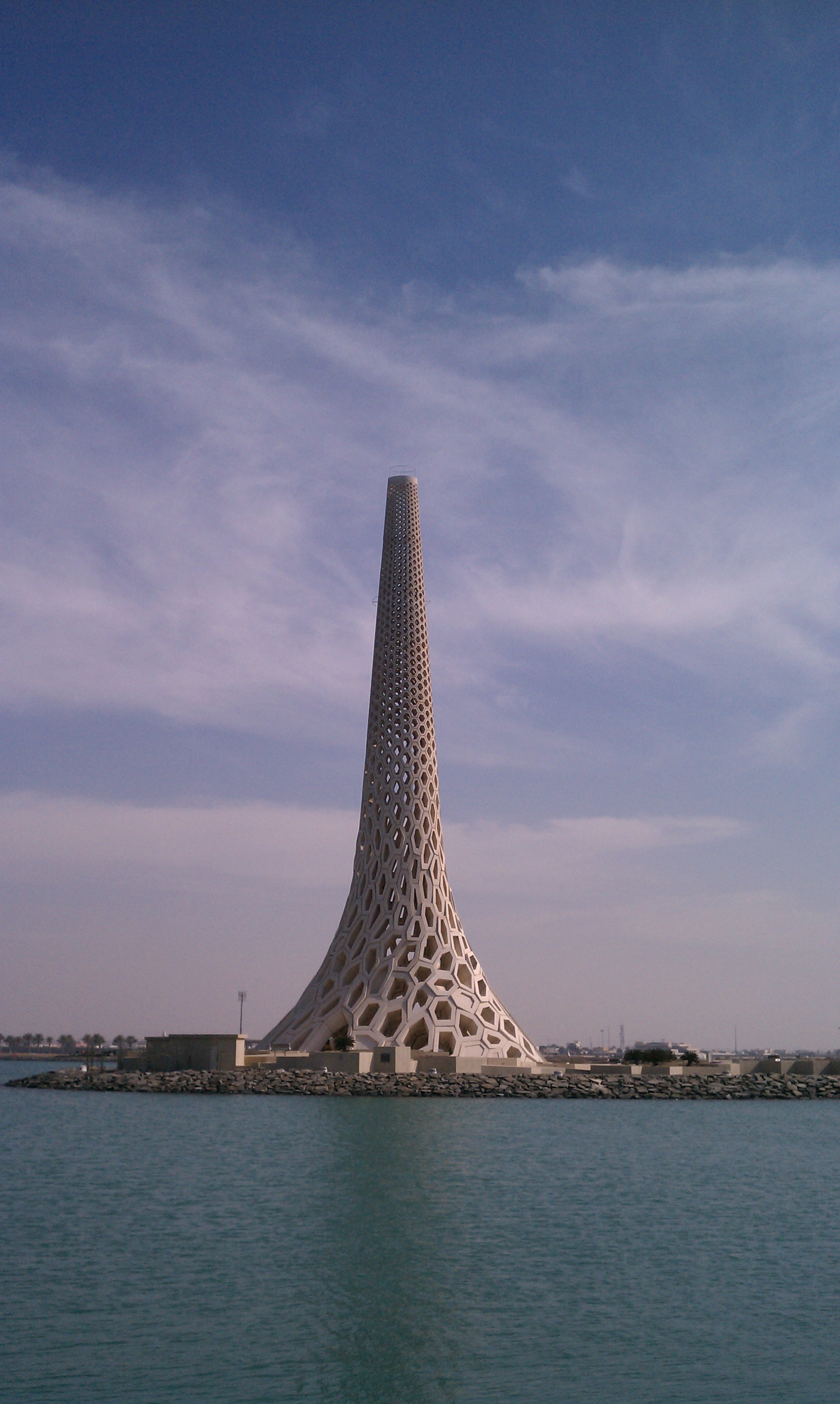 The KAUST beacon